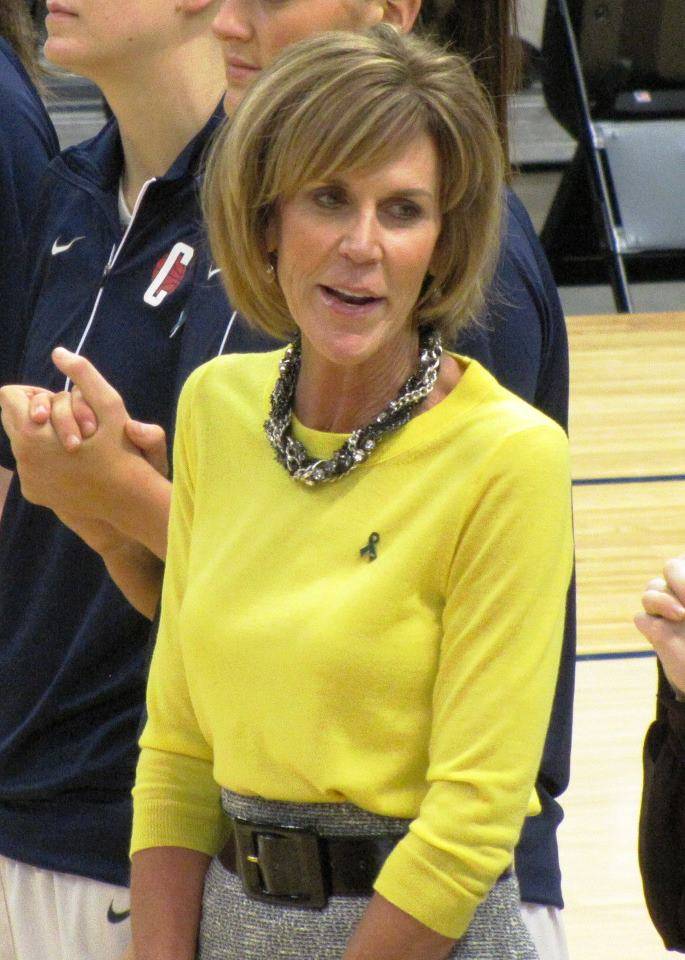 Chris Dailey - Associate Head Coach UConn Women's basketball Team. Taken at UConn - Louisville game at XL Center 15 January 2013.